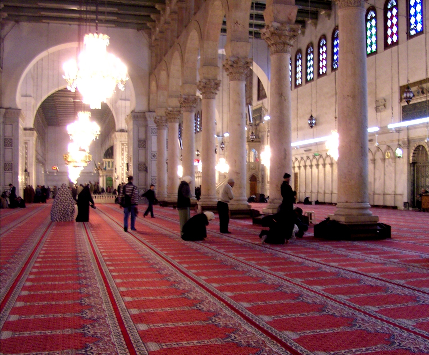 Inside the Umayyad Mosque, Damascus in December 2009.